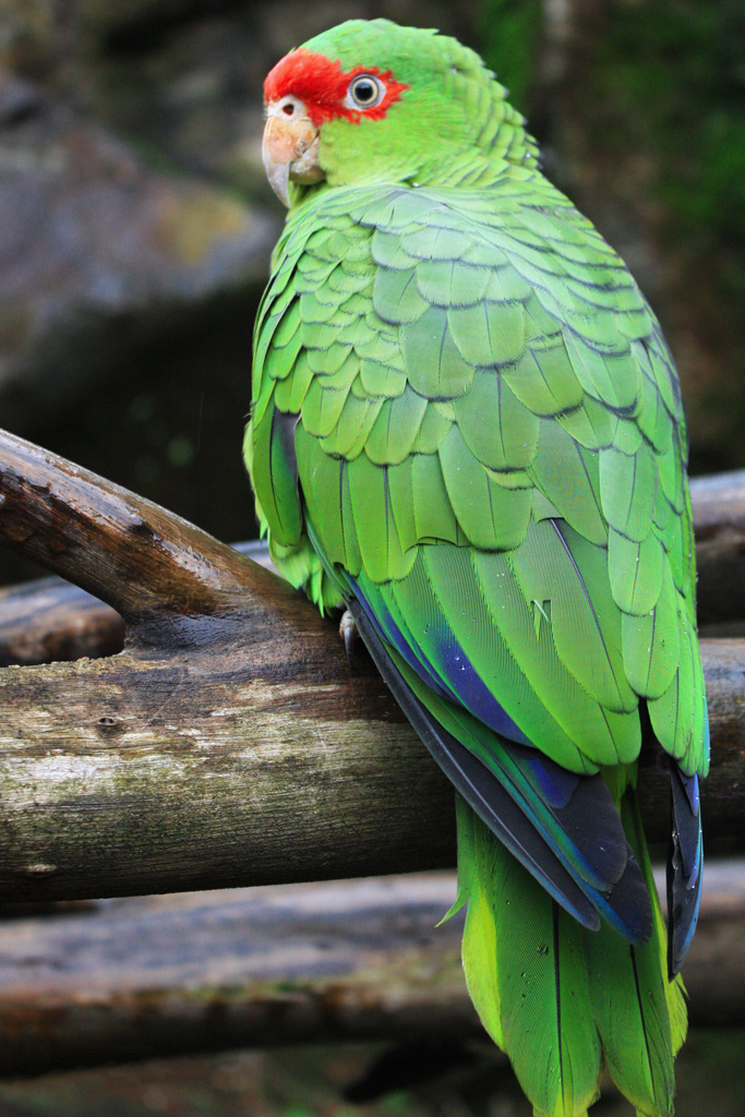 A Red-spectacled Amazon at Gramado Zoo, Gramado, Rio Grande do Sul, Brazil.